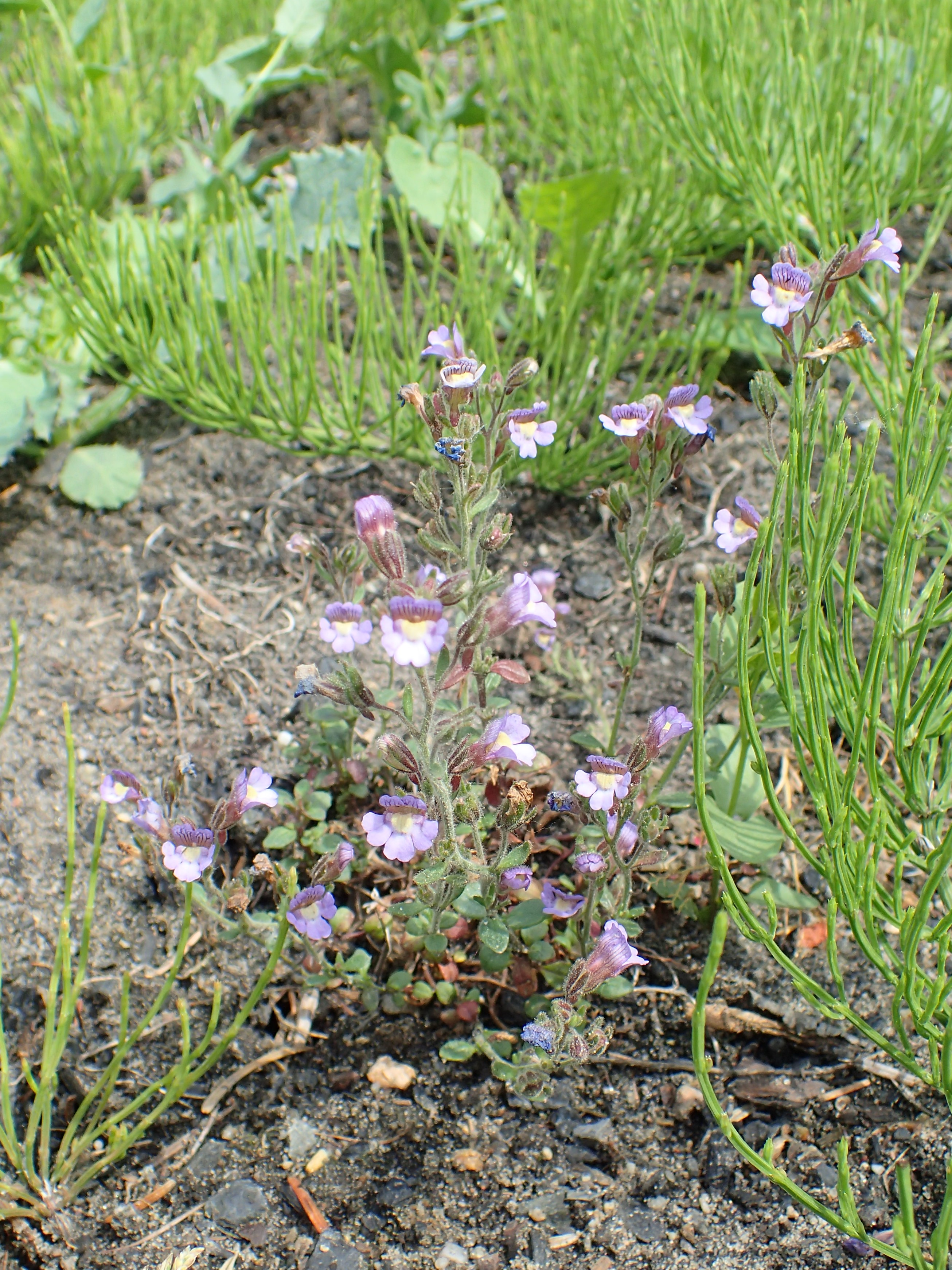 Chaenorhinum origanifolium in the Botanischer Garten, Berlin-Dahlem